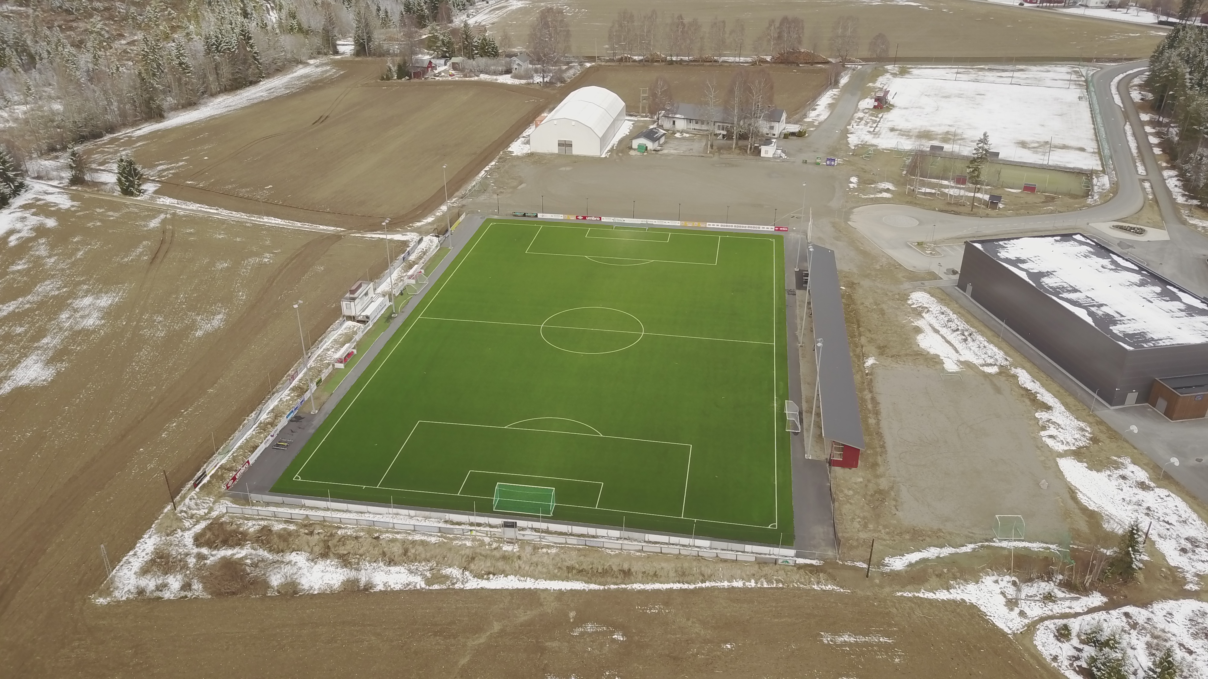 Nordkisa sports arena